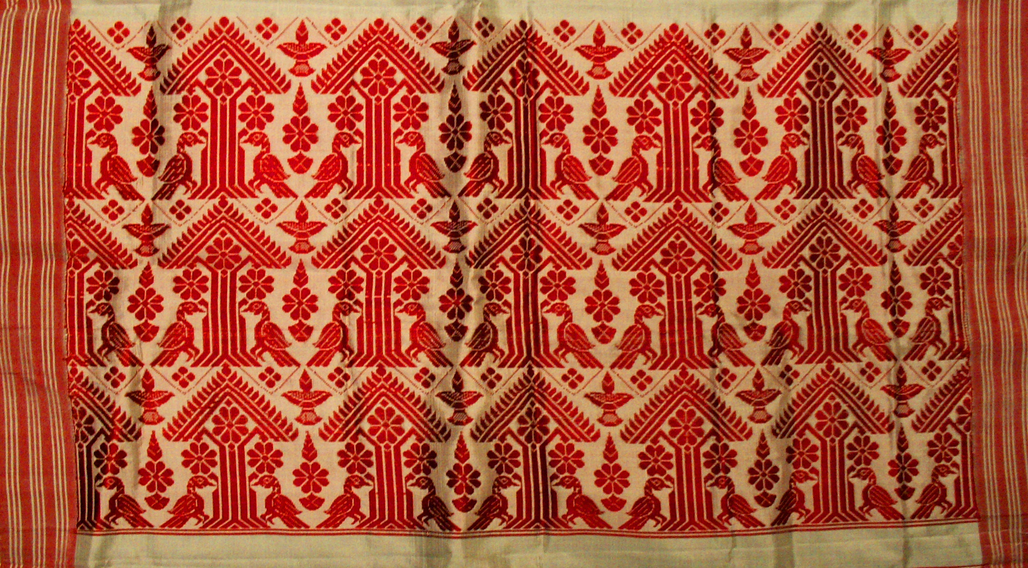 Author: User: Priyankoo Source: Self